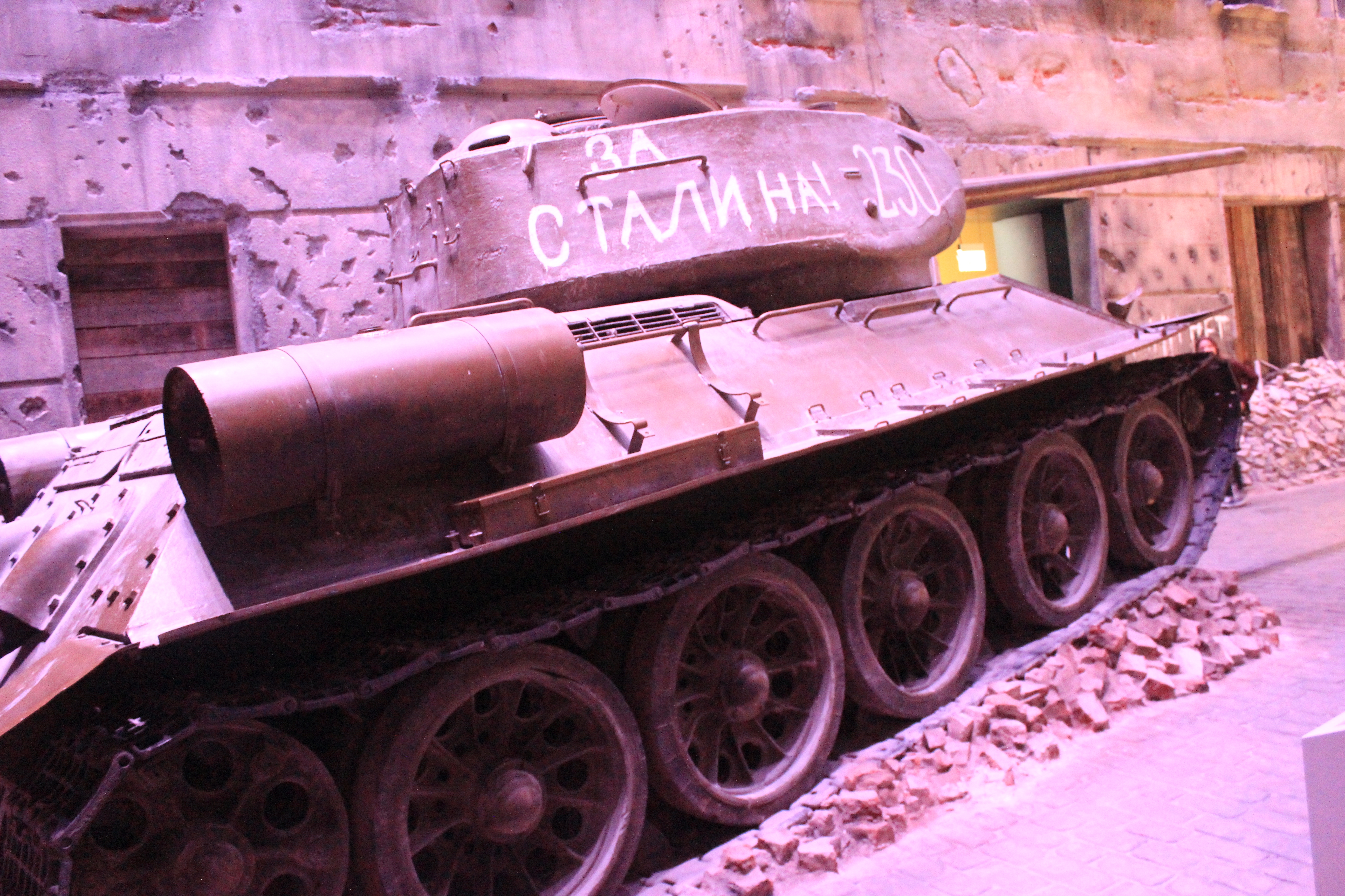 Gdańsk - Museum of the Second World War - Soviet tank T-34-85